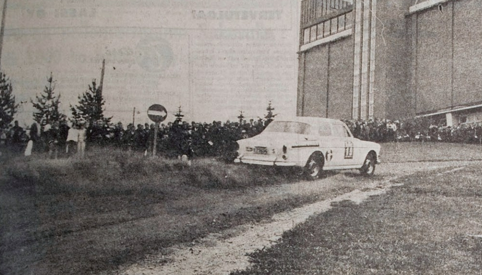 Carl-Magnus Skogh drives his Volvo 122 S at the 1965 1000 Lakes Rally (Rally Finland).